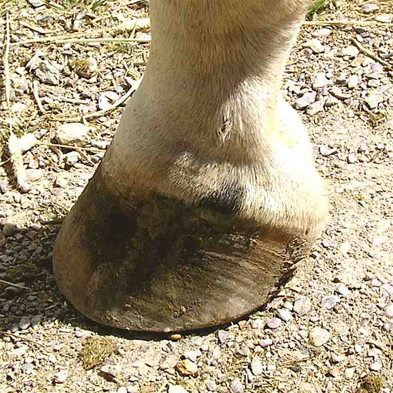 Example of an "ermine spot," a black marking inside a white marking